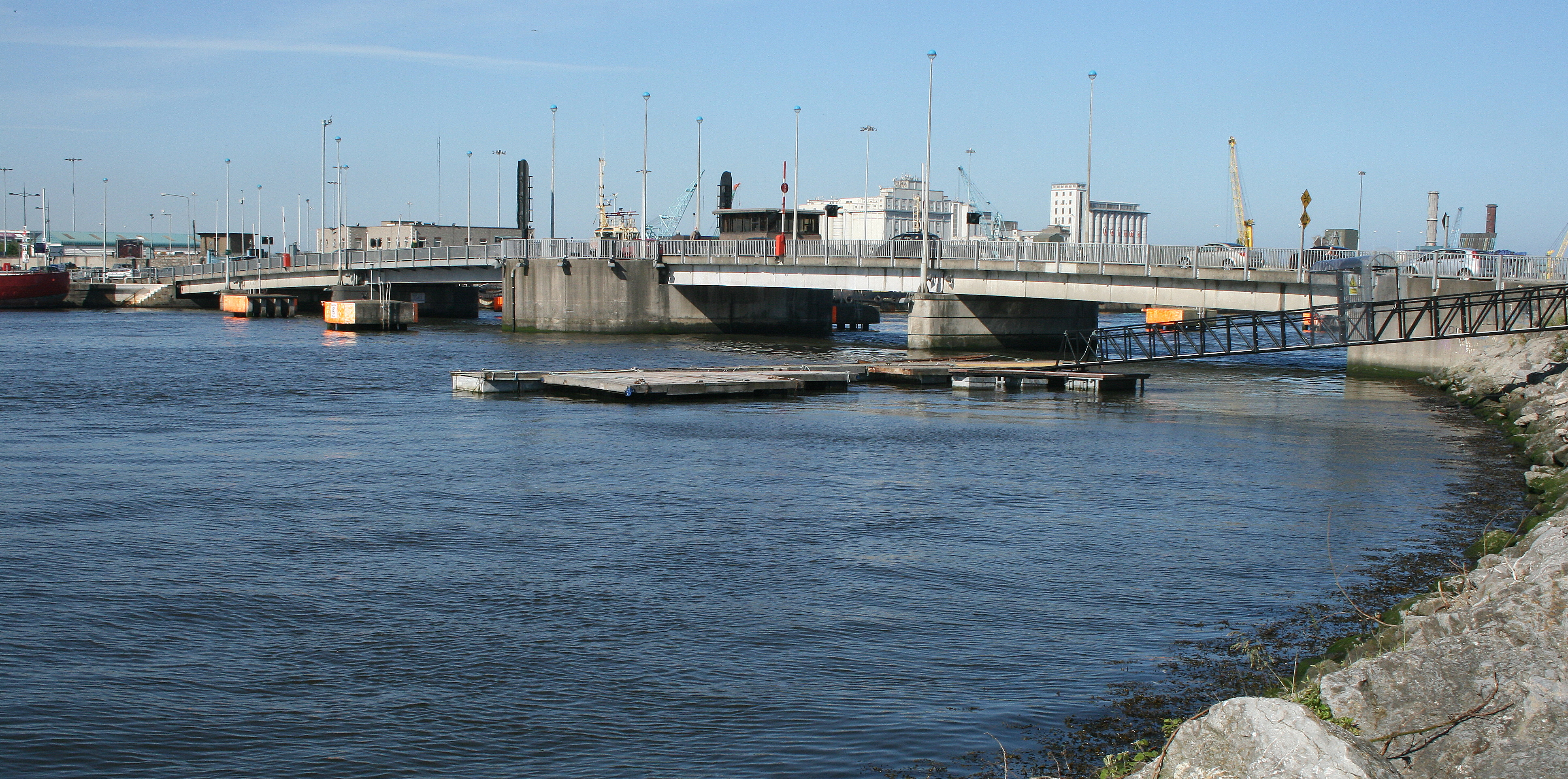 East Link Bridge over the Liffey